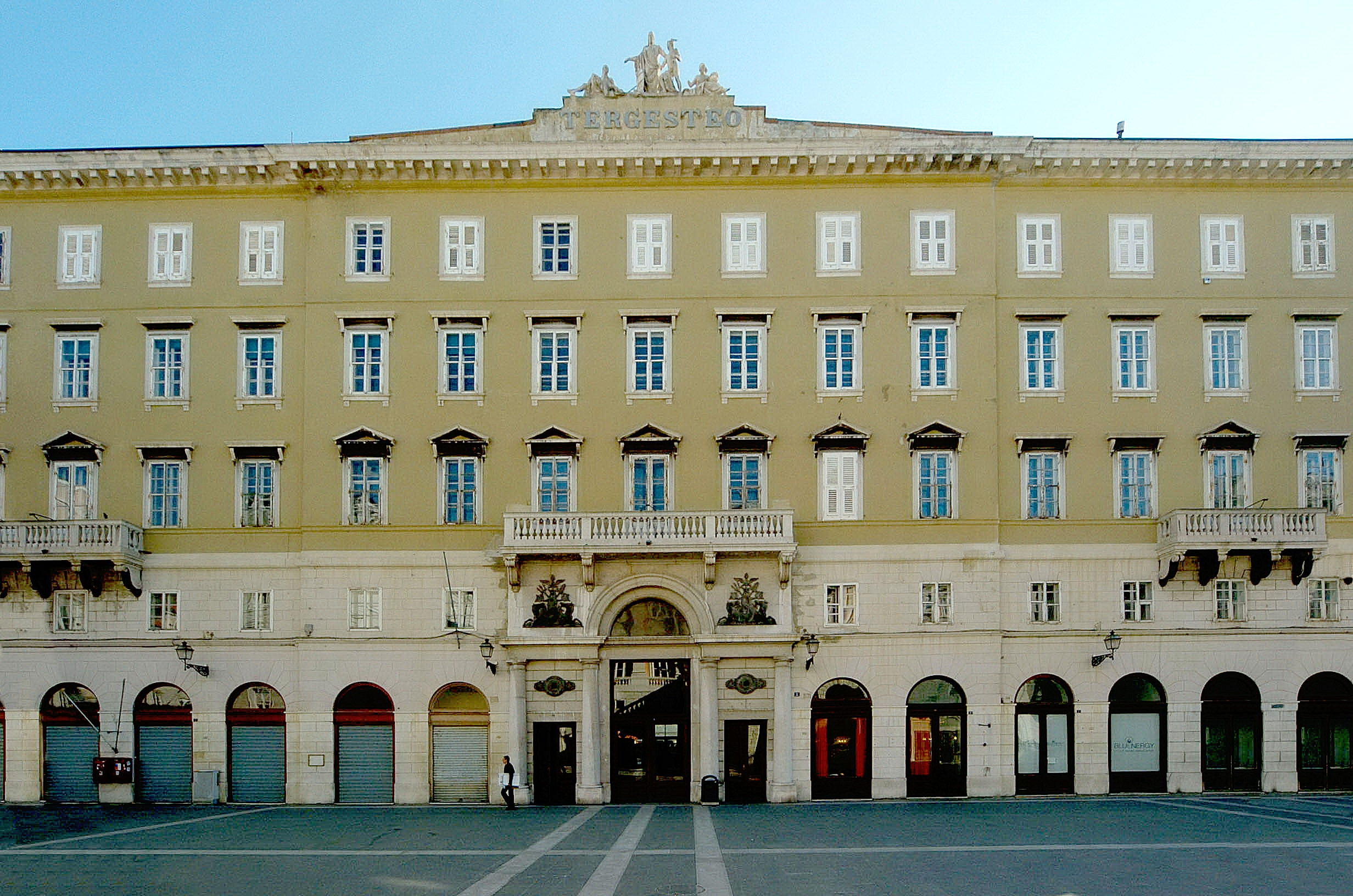 Palazzo del Tergesteo in Trieste, Back side, Italy